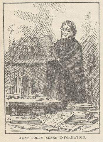 Illustrations de The Adventures of Tom Sawyer, 1876.